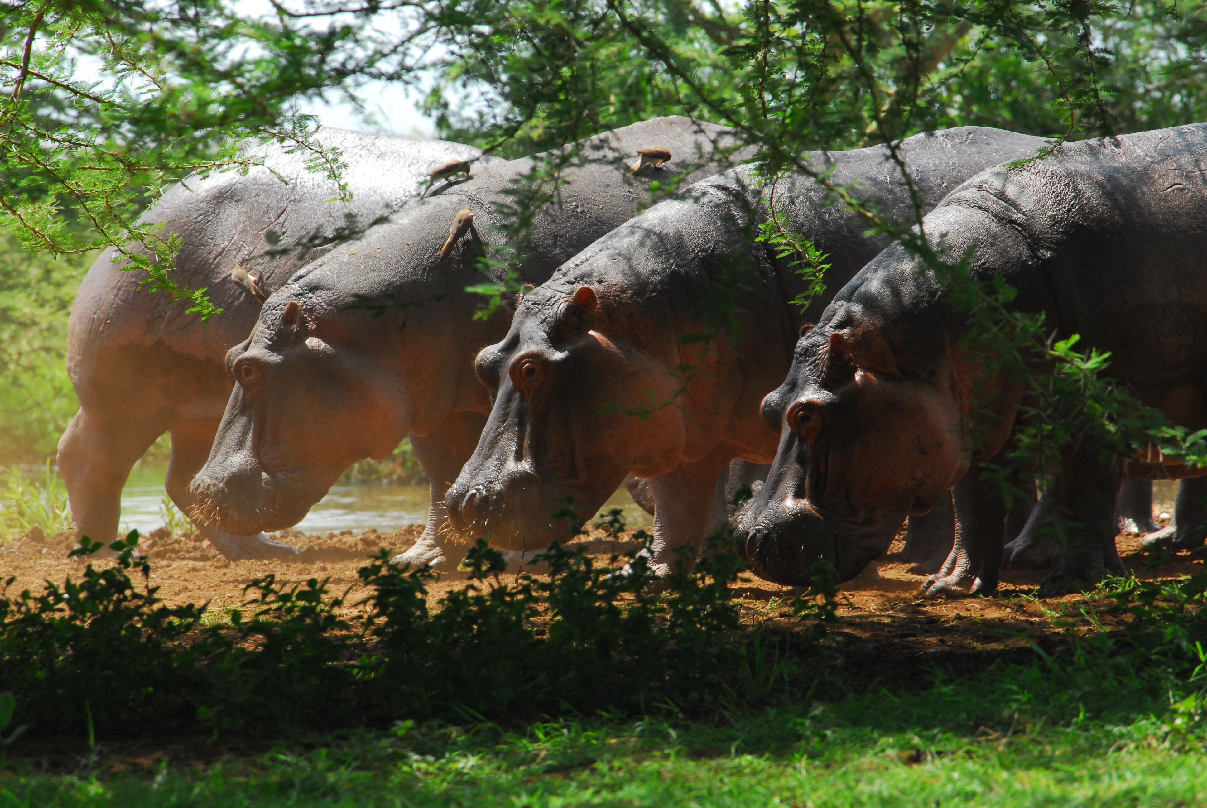 Hippopotamus in the Manyara National Park, Tanzania